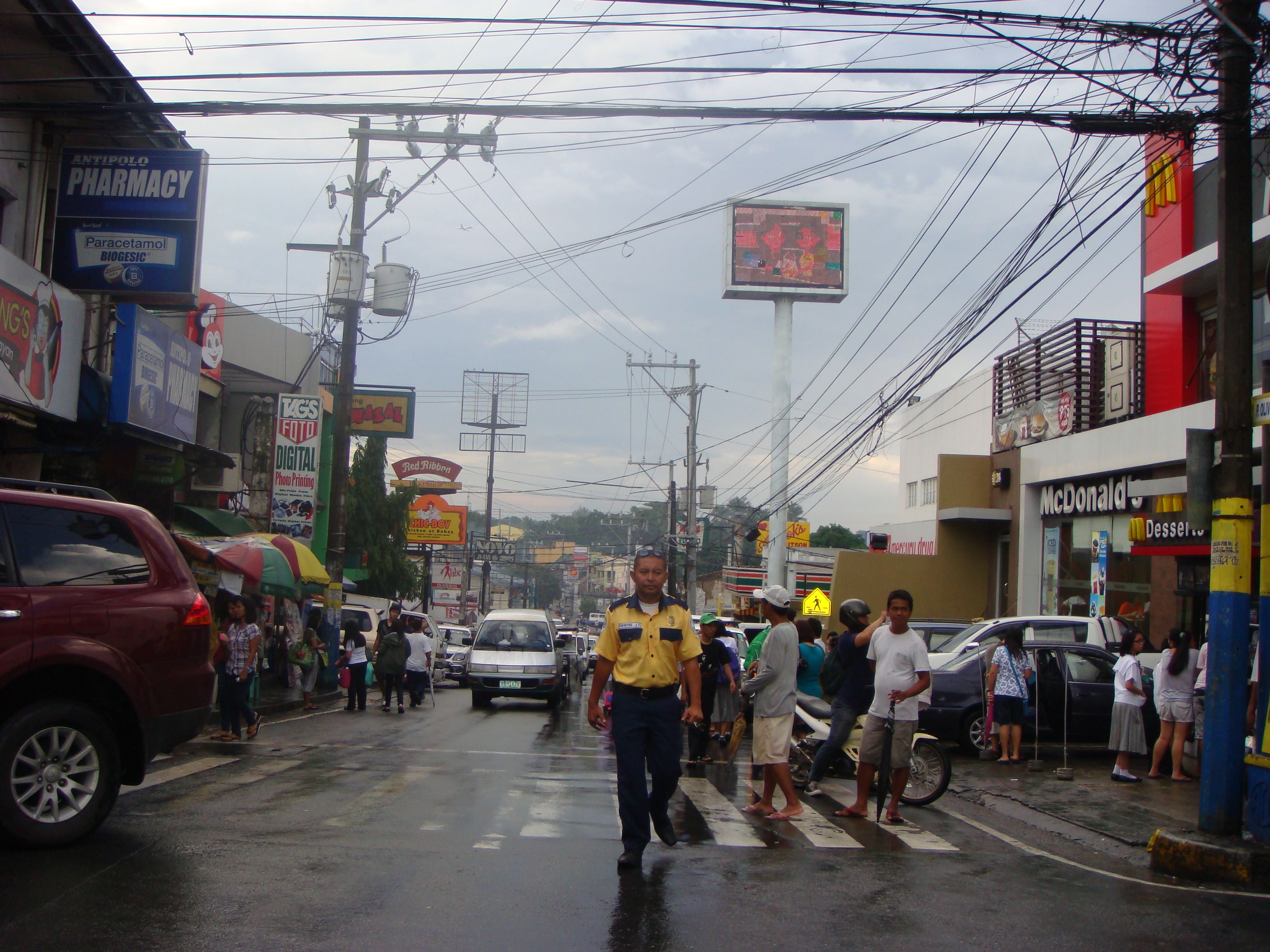 Antipolo City, Town Center